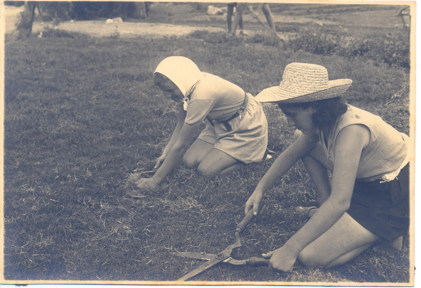 Agriculture in Israel